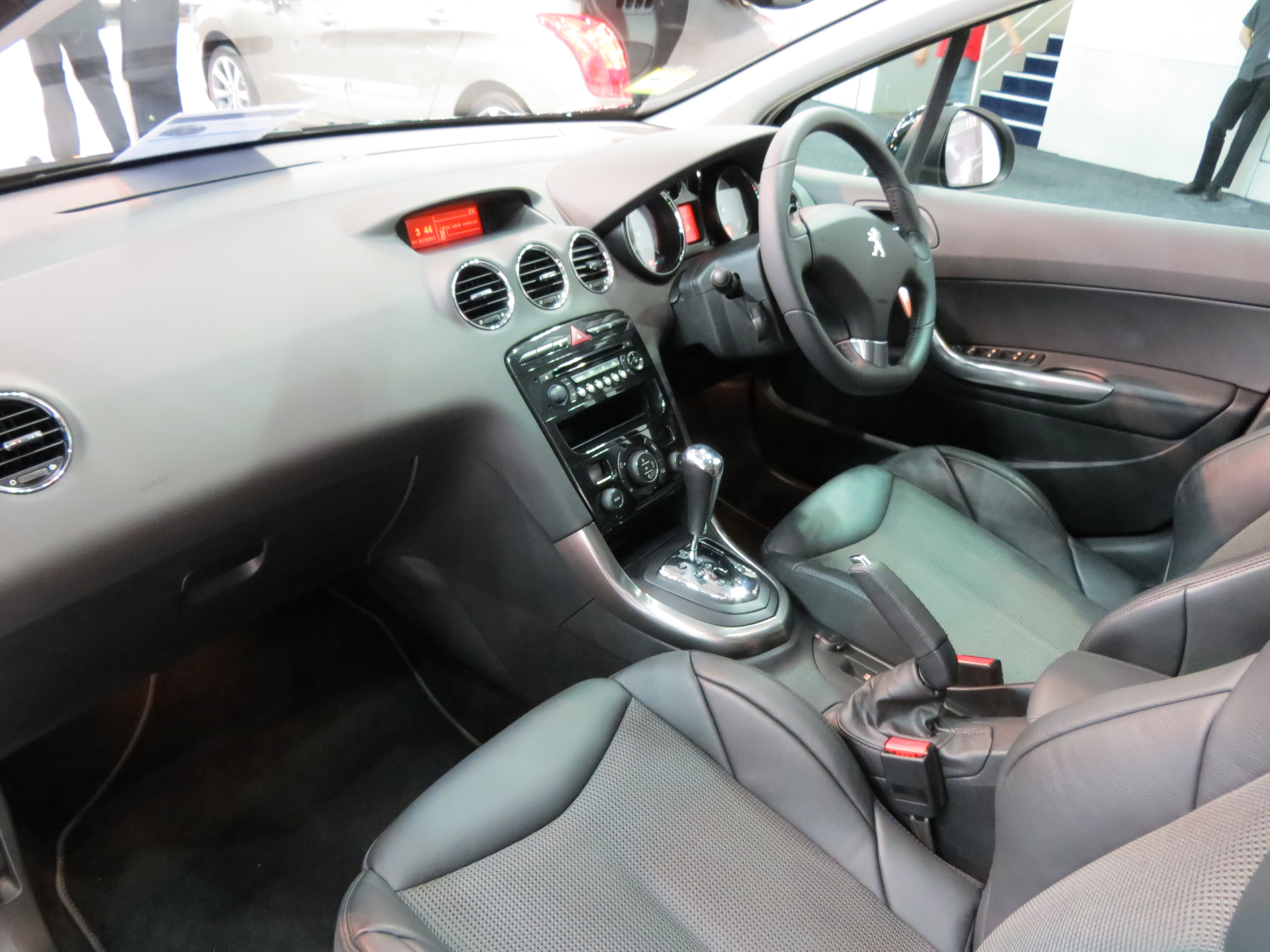 2012 Peugeot 308 (MY12) Allure HDi 5-door hatchback. Photographed at the 2012 Australian International Motor Show, Sydney, New South Wales, Australia.